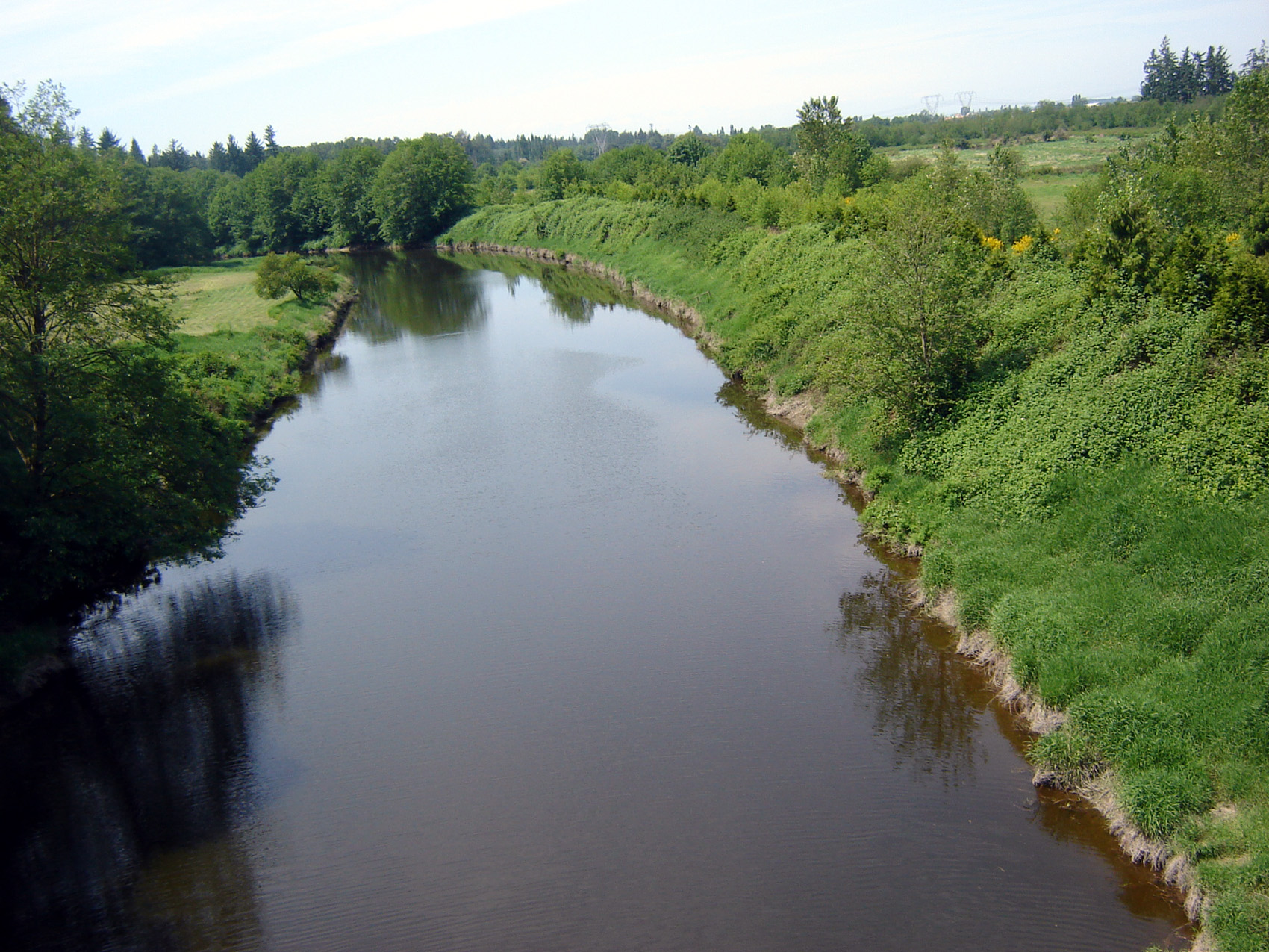 Photo by me Taken May, 2006